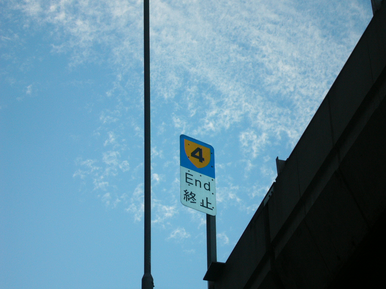 Termination Sign of Route 4, Hong Kong (western end)